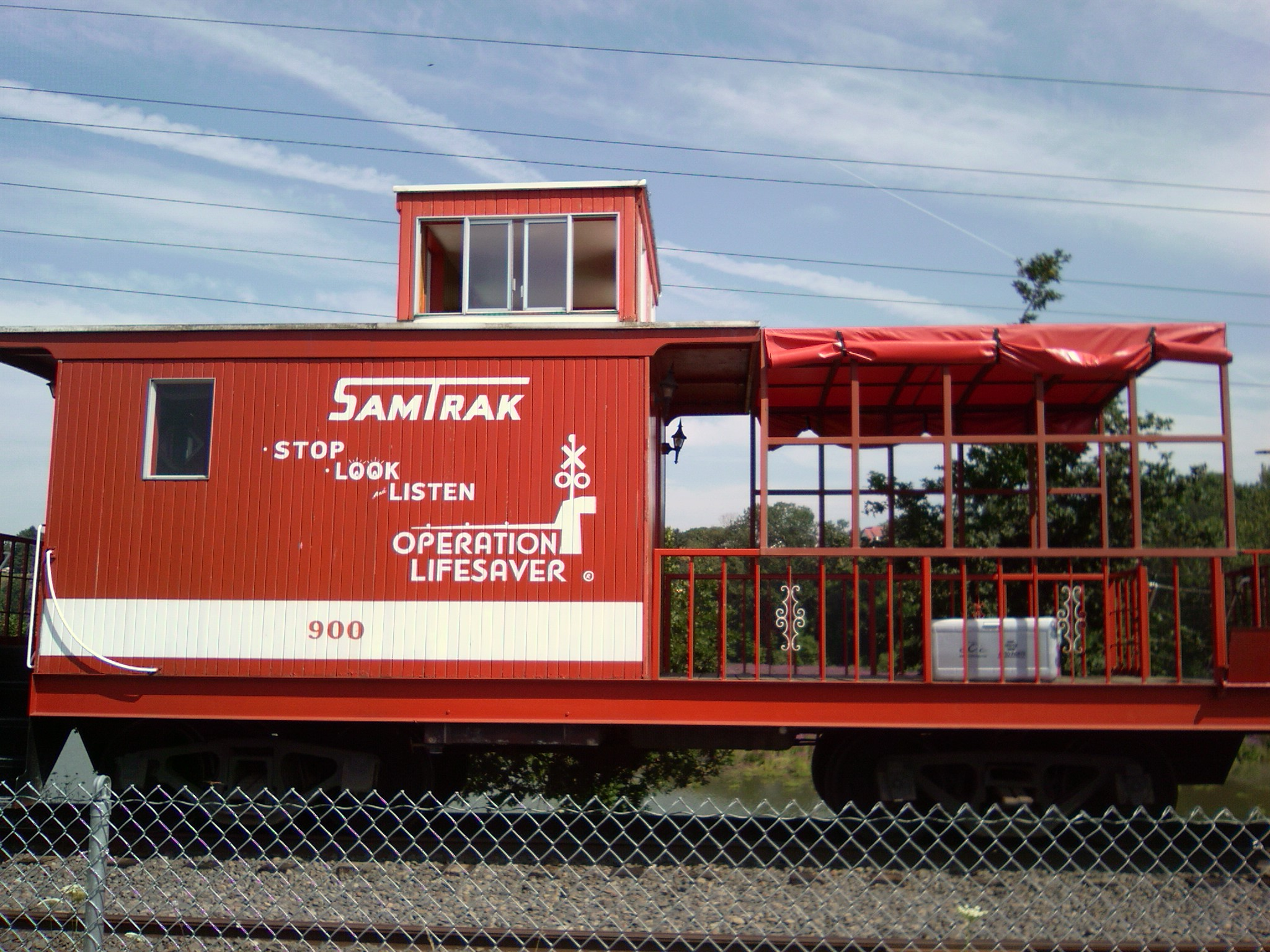 Picture of the Samtrak caboose taken September 15, 2007 at the Oregon Electric Railway Museum in Brooks, Oregon.